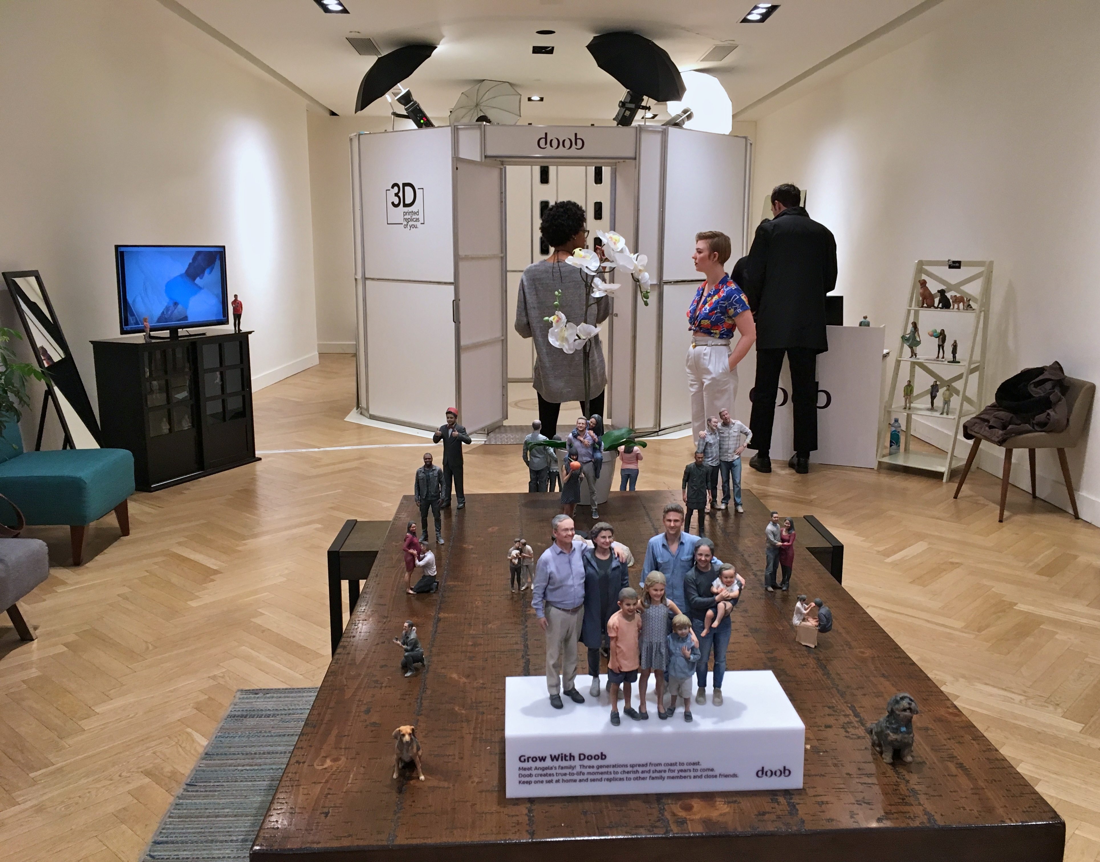 3D-scanning photo booth for 3D selfies at the Doob NY SOHO store.